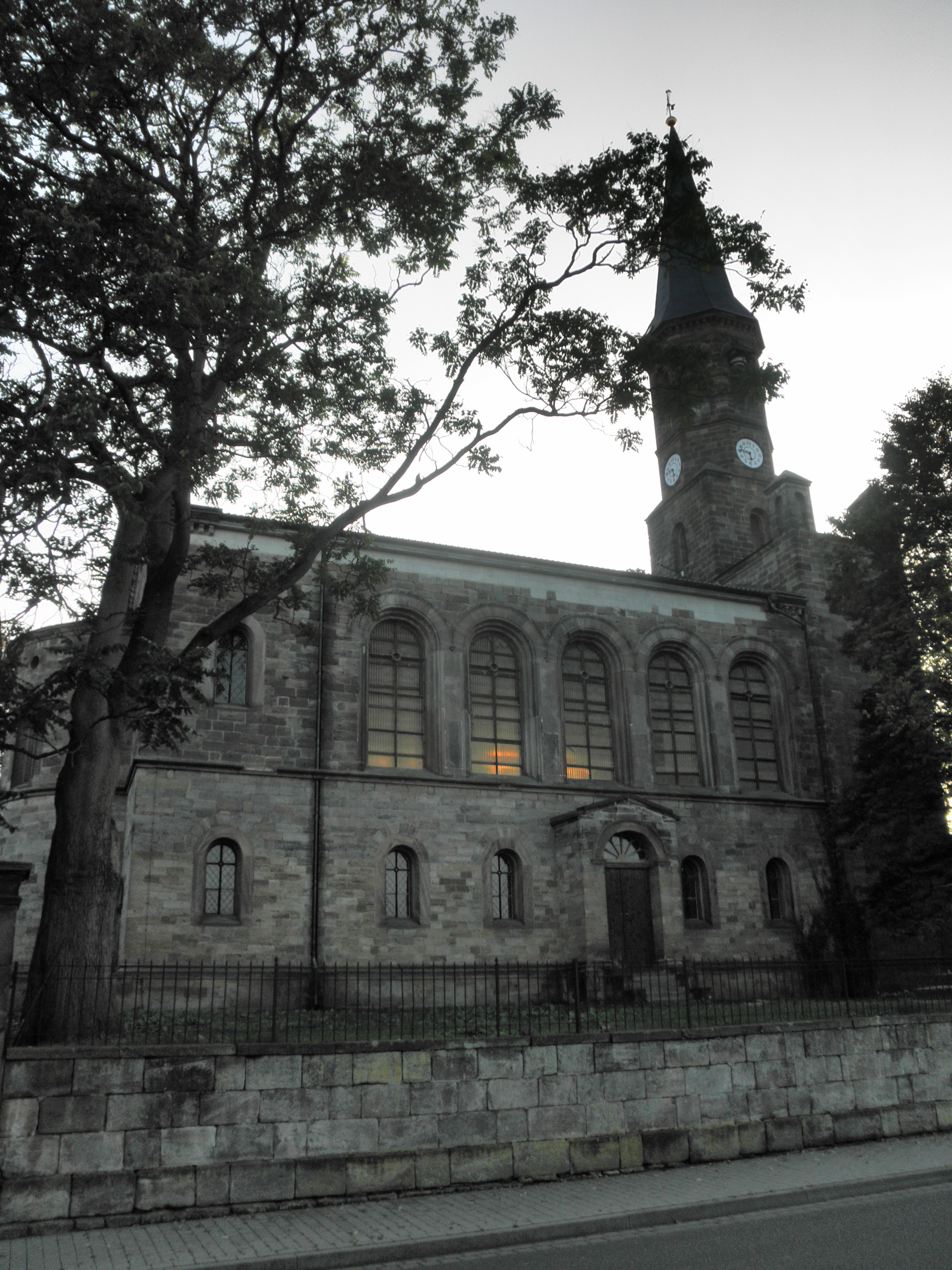 New Church Peter and Paul in Donndorf in Thuringia